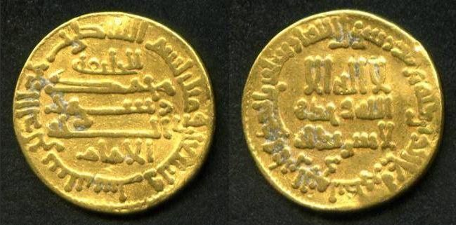 Abbasid Dinar (4.1 g, 18 mm) - Al Ma'mun - 196 AH/811 AD. The coin indicates that it was struck "li-al Khalifa al-Imam". It was struck before al-Ma'mun became the official caliph and was struck while his brother al-Amin was still the official caliph. Al Ma'mun did not become the caliph until 198 AH/813 AD. This coin was struck in Fustat (Egypt) after forces supporting al-Ma'mun defeated those supporting his brother the caliph al-Amin.